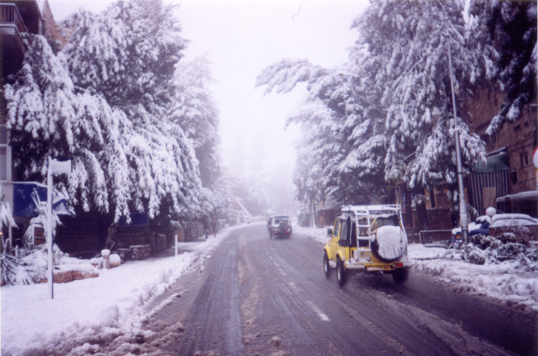 Aza Road.